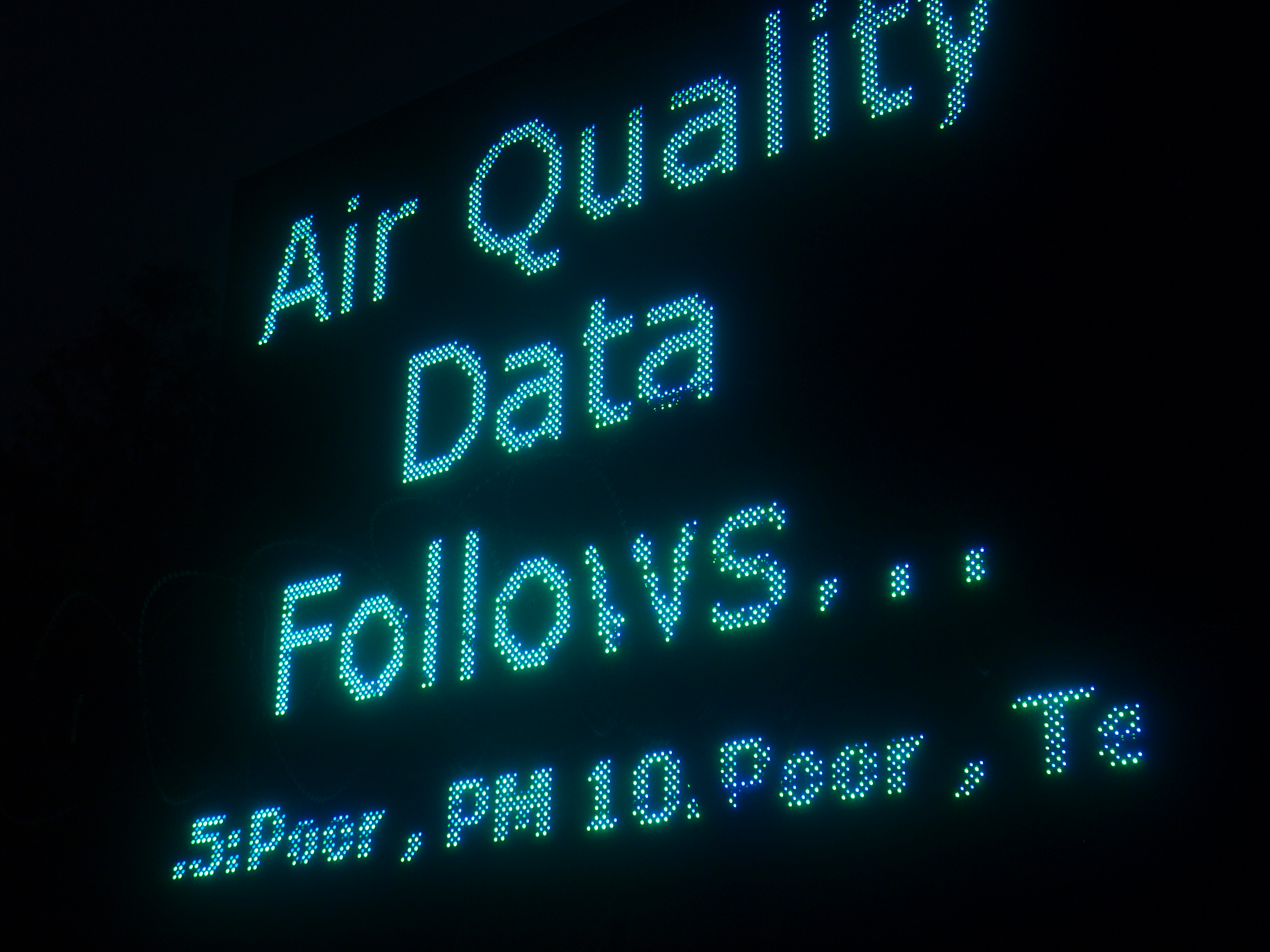 New Delhi Met Office, India